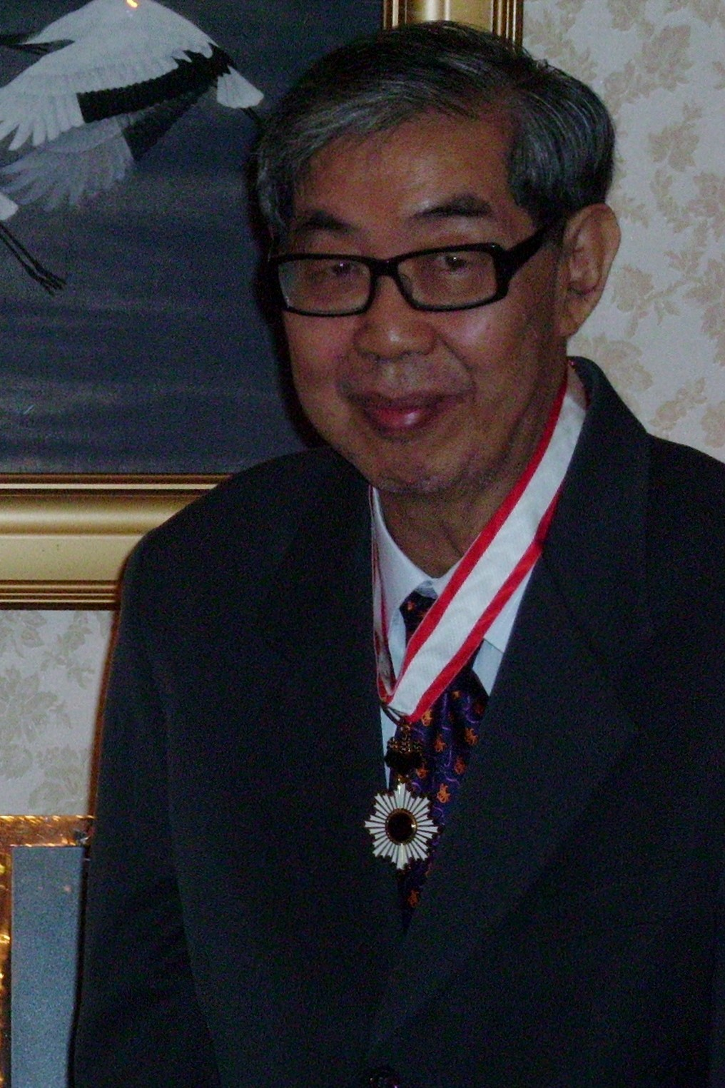 This is a picture of Lee Poh Ping in 2010 during a ceremony at the Japanese Embassy, Kuala Lumpur to receive the Order of the Rising sun